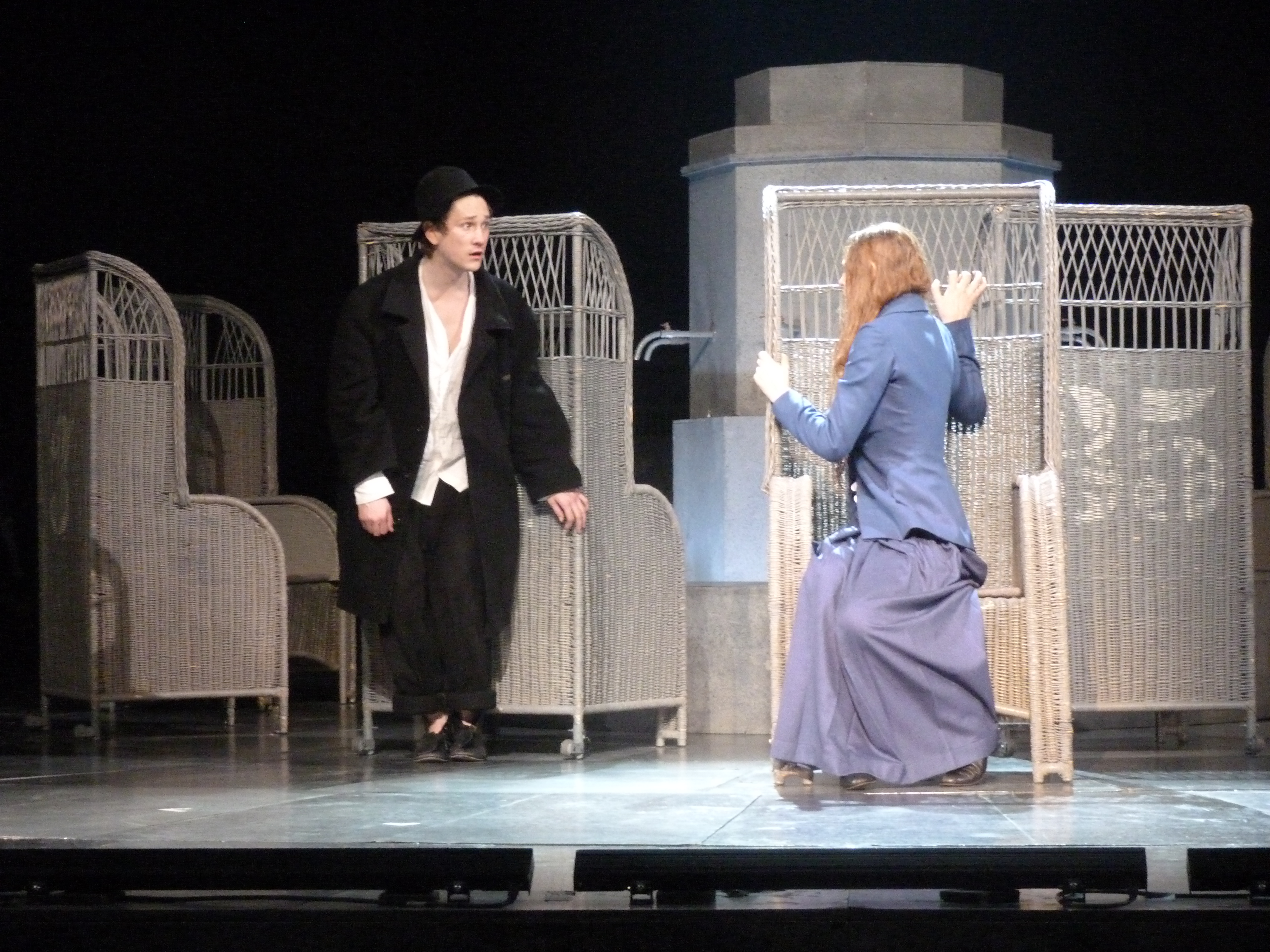 I. Madách International Theatre Meeting (MITEM) – 2014.03.26 From Dostoyevsky: The Gamble. Nemzeti Színház, Budapest, Hungary. Anton Shagin, Alexander Polamishev, Polina-Alexandra Bolshakova, Igor Volkov, Alexander Lushin, Sergey Parsin, Maria Lugovaya, Sergey Yelikov, Vasilisa Alexeyeva, Maria Zimina, Elena Vozhakina, Ivan Yefremov, Victor Shuralev, Ziganshina Era, Yushiran Meshchanov, Sergey Sidorenko, Igor Kroll, Kirill Zamyshlayev. Live on the first day of the Madách International Theatre Meeting. MITEM is not a competition. The goal of this gathering is is to develop a long-term and creative relationship among the theatres of Central Europe, our Paradise Lost. Zero Liturgy Tags: Vidnyánszky Attila Nemzeti Színház MITEM I. Madách Nemzetközi Színházi Találkozó 2014-03-26 Budapest 2014 Zero Liturgy Dostoyevsky The Gamble Sources: Vidnyánszky Attila: Hagyomány – korszerűség – nemzetköziség Nemzeti 2014. január. Hamarosan kezdődik a MITEM fesztivál Alexandrinsky Theatre ©© Derzsi Elekes Andor, Budapest, 2014, You are authorised to use these photos and vids under Creative Commons – even for commercial, for profit purposes. Photos must be attributed to Derzsi Elekes Andor. All of the photos and vids in the Metapolisz DVD line are under Creative Commons and can be used even for commercial – for profit – purposes. Recommended Citation Derzsi Elekes Andor: Metapolisz DVD line